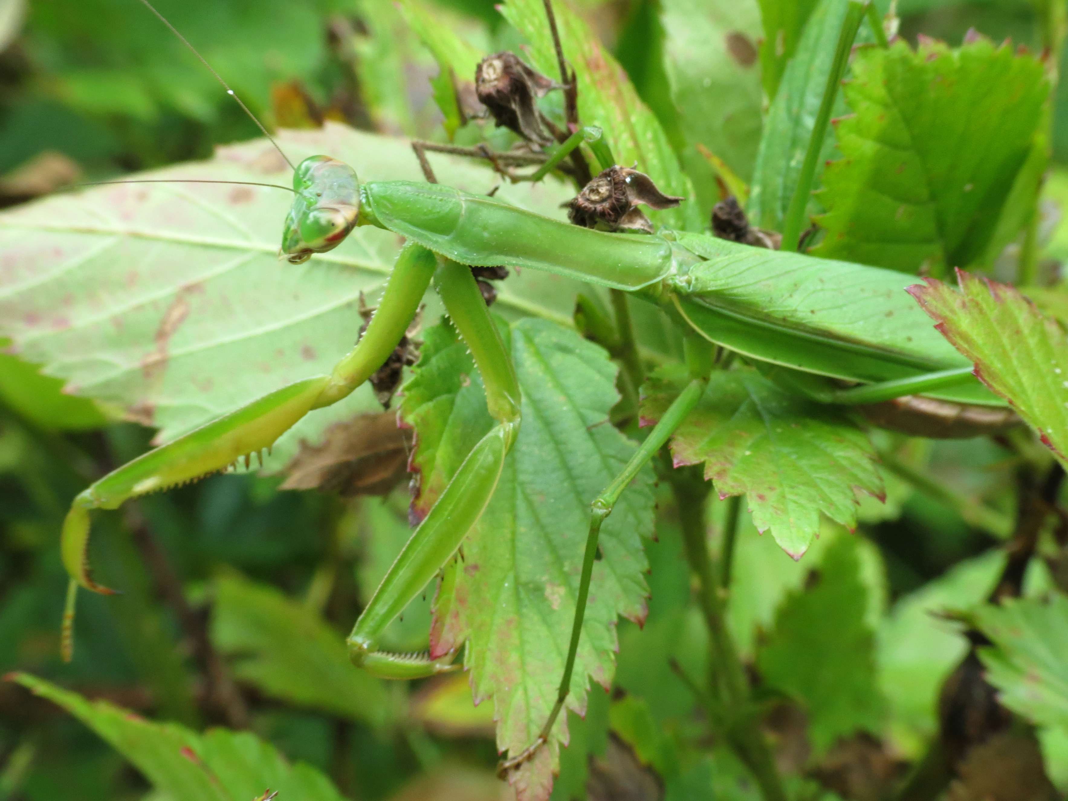 Tenodera sinensis. Rock Creek Park, Washington, DC, USA.